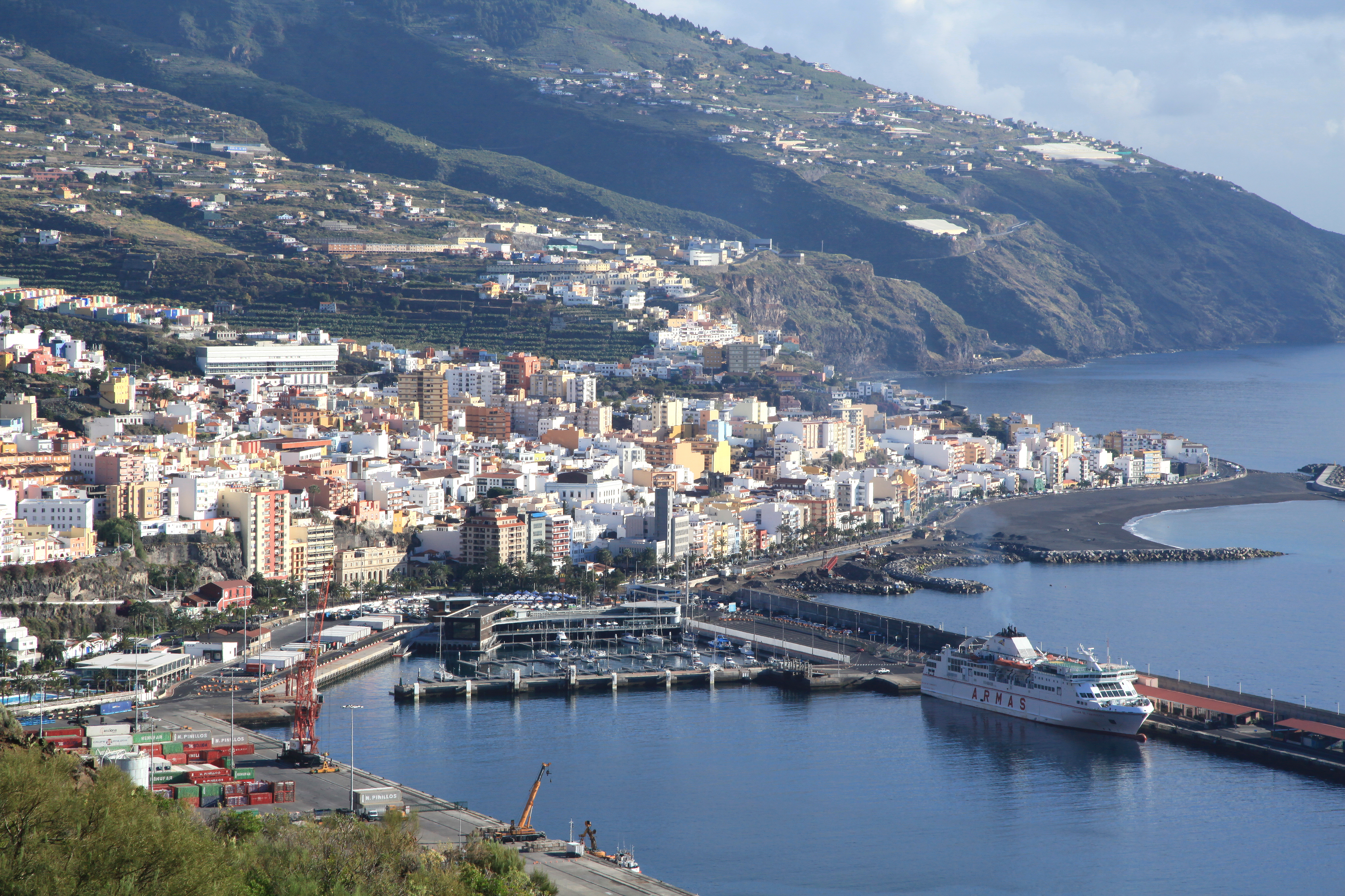 View from the LP-3 in Breña Alta to the port of Santa Cruz de La Palma, La Palma, Canary Island, Spain